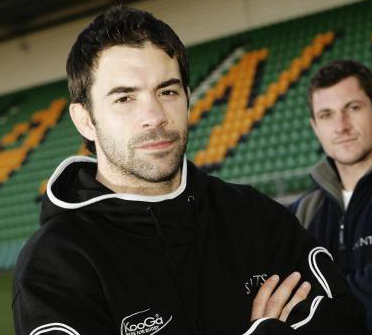 Budge Poutney during his sime as Northampton Saints DOR.